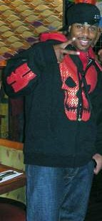 Professional wrestler JTG (real name Jayson Paul). Photo taken at a meet and greet in Cleveland Ohio